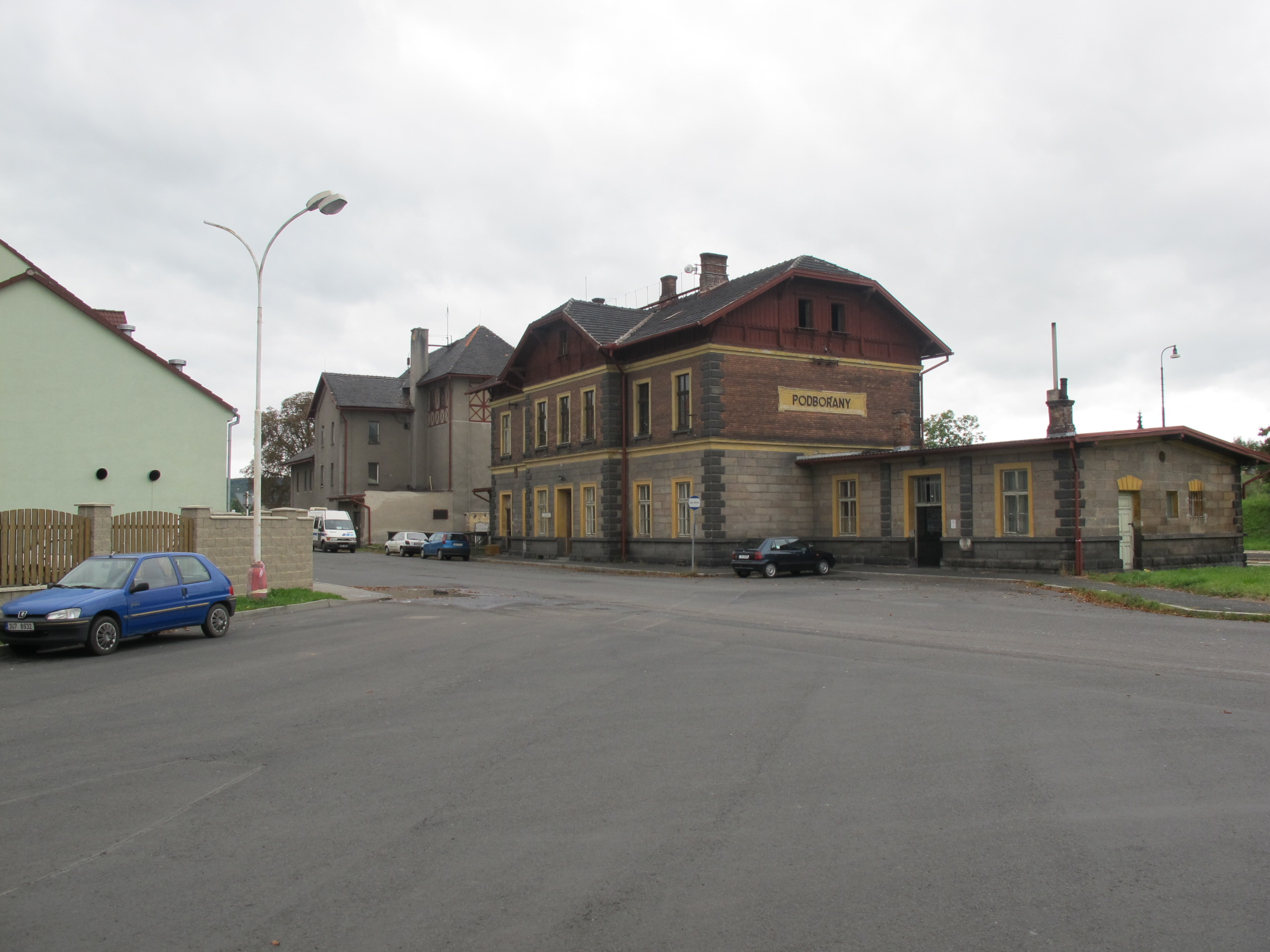 Train station in Podbořany